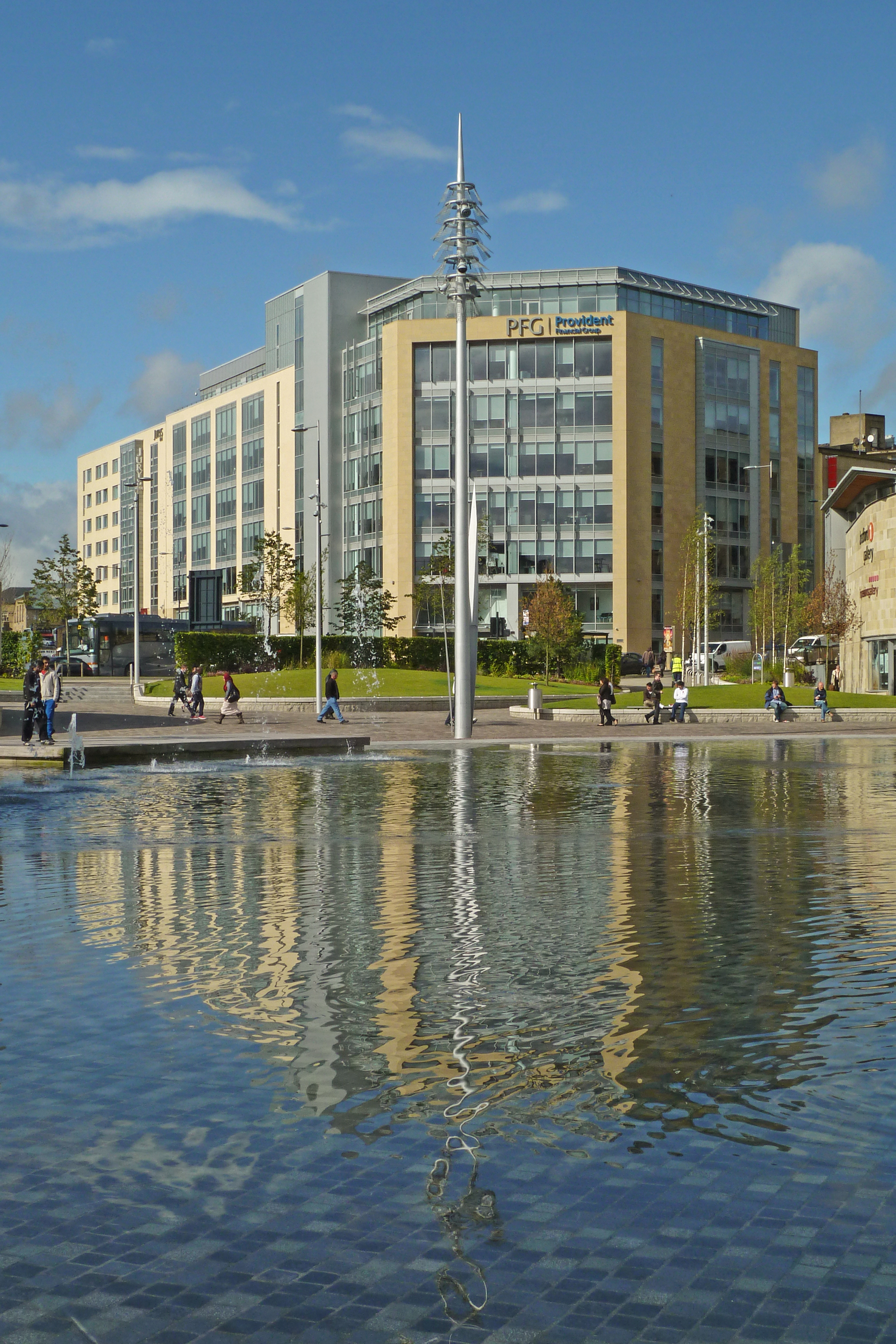 City Park, Bradford, West Yorkshire. Taken by Flickr user:Tim Green aka atouch on Monday the 1st of October 2012.